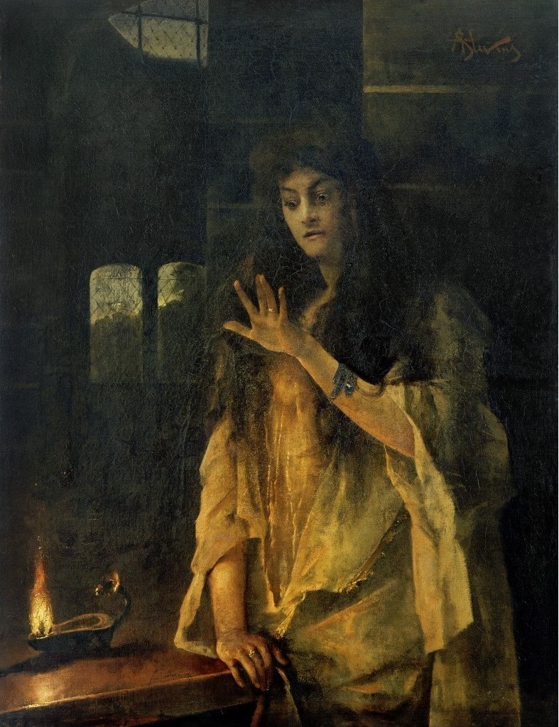 Lady Macbeth by Alfred Stevens, undated, oil on canvas, 127 x 97 cm. Musées communaux de Verviers